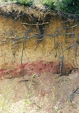 Soil profile in hills of Manisa Province, Turkey, showing a distinct horizon of accumulated red-purple metallic (manganese and/or iron?) oxides.